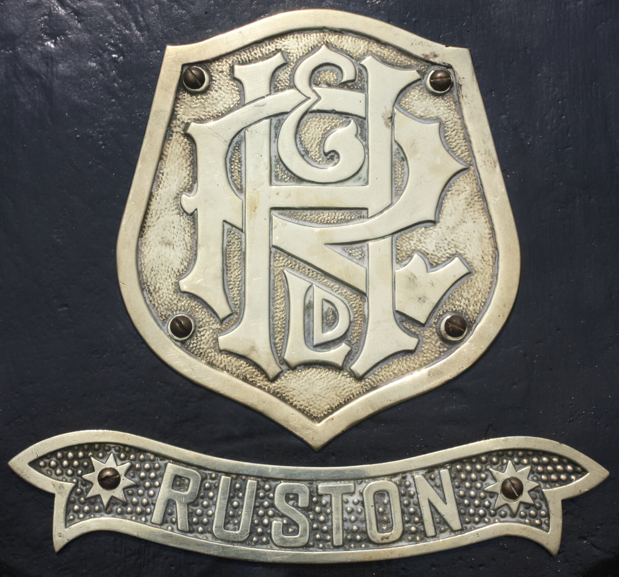 The Headstock badge on a Ruston & Hornsby steam roller.